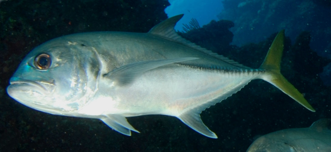 caranx hippos